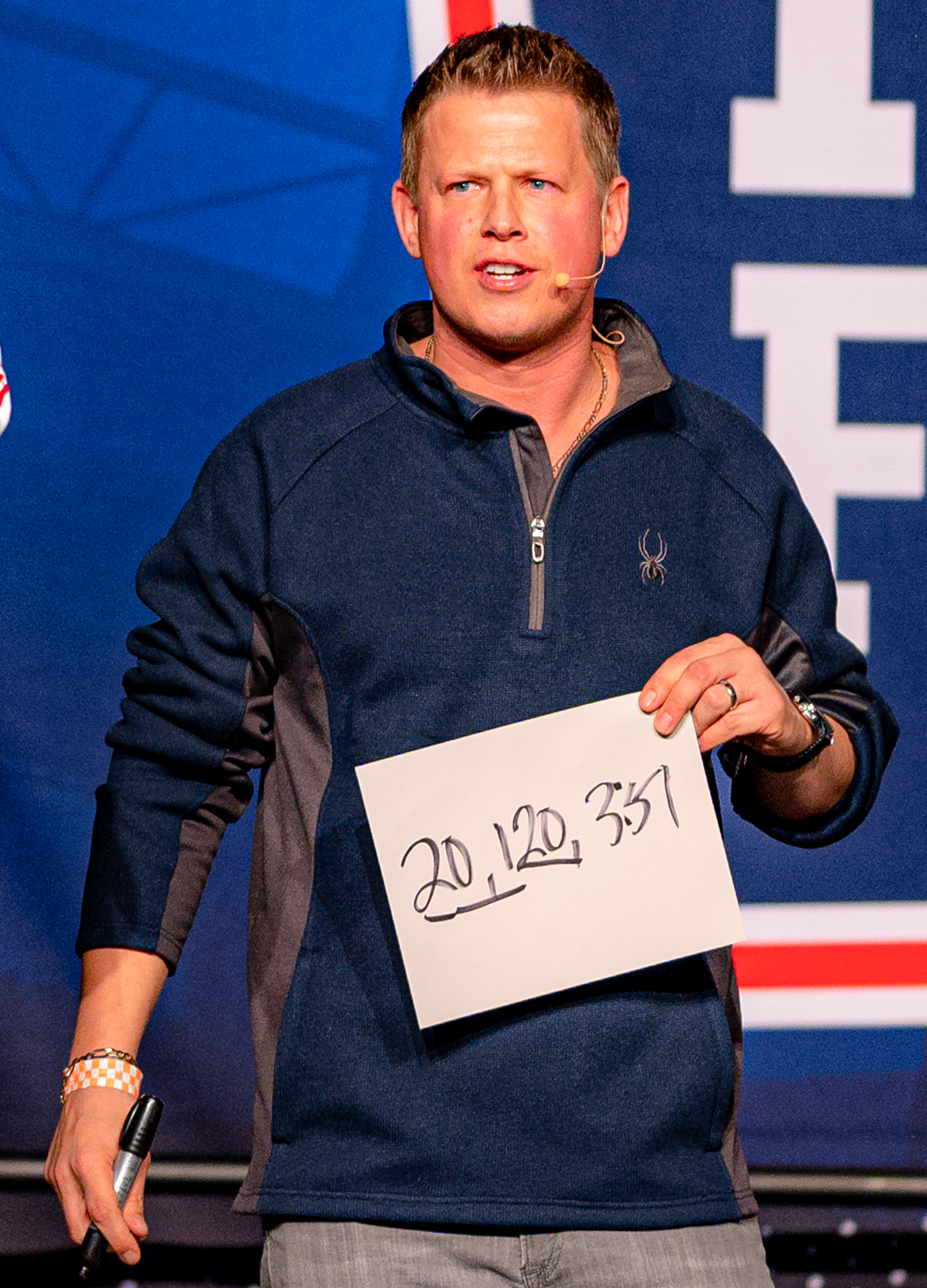 Triston McKenzie and Rick Smith Jr. at Cleveland Indians Tribe Fest at Huntington Convention Center of Cleveland in February 2020.